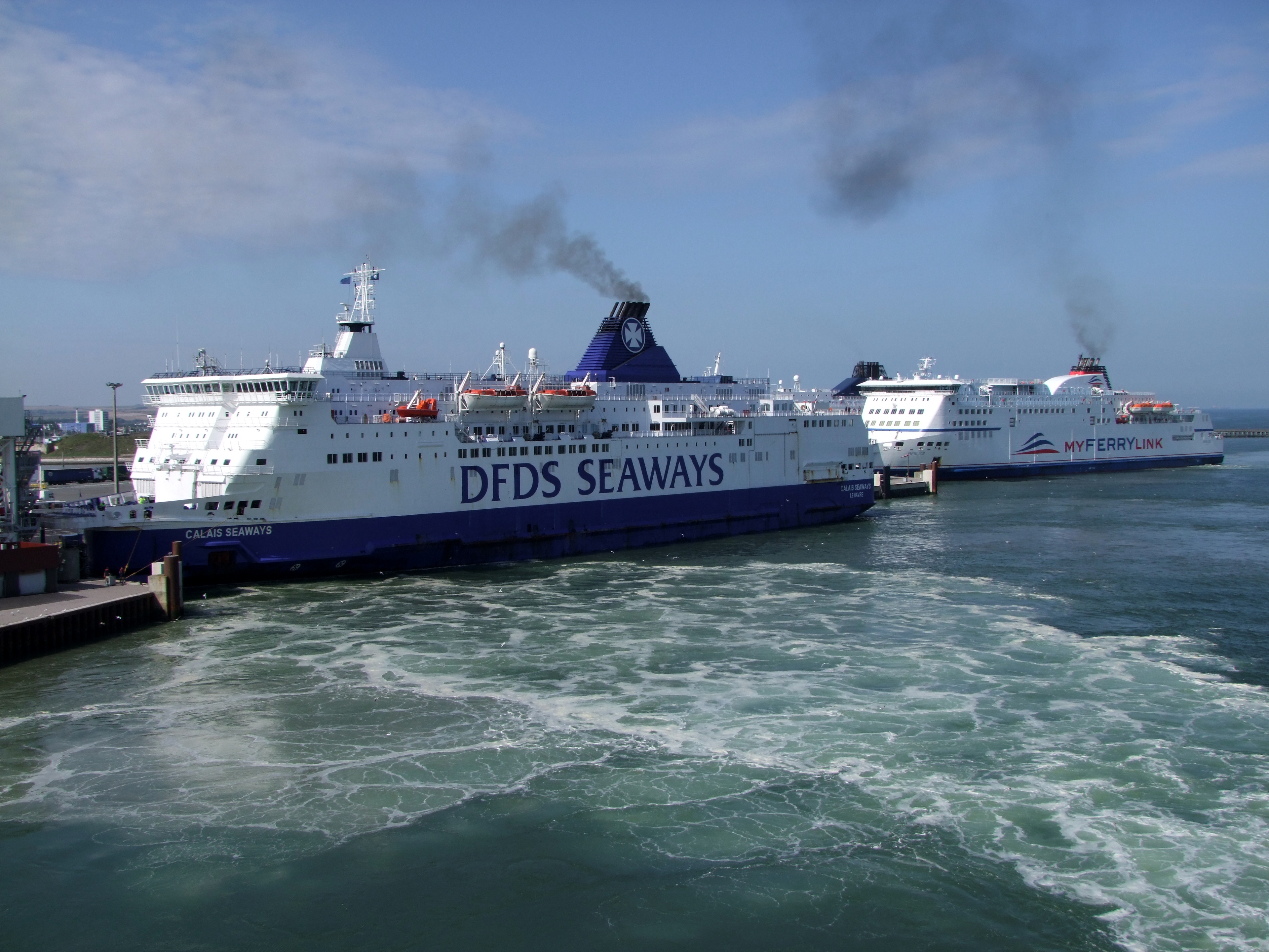 England Ferries in the Harbour of Calais